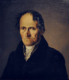 this is an only portrait of Walter.